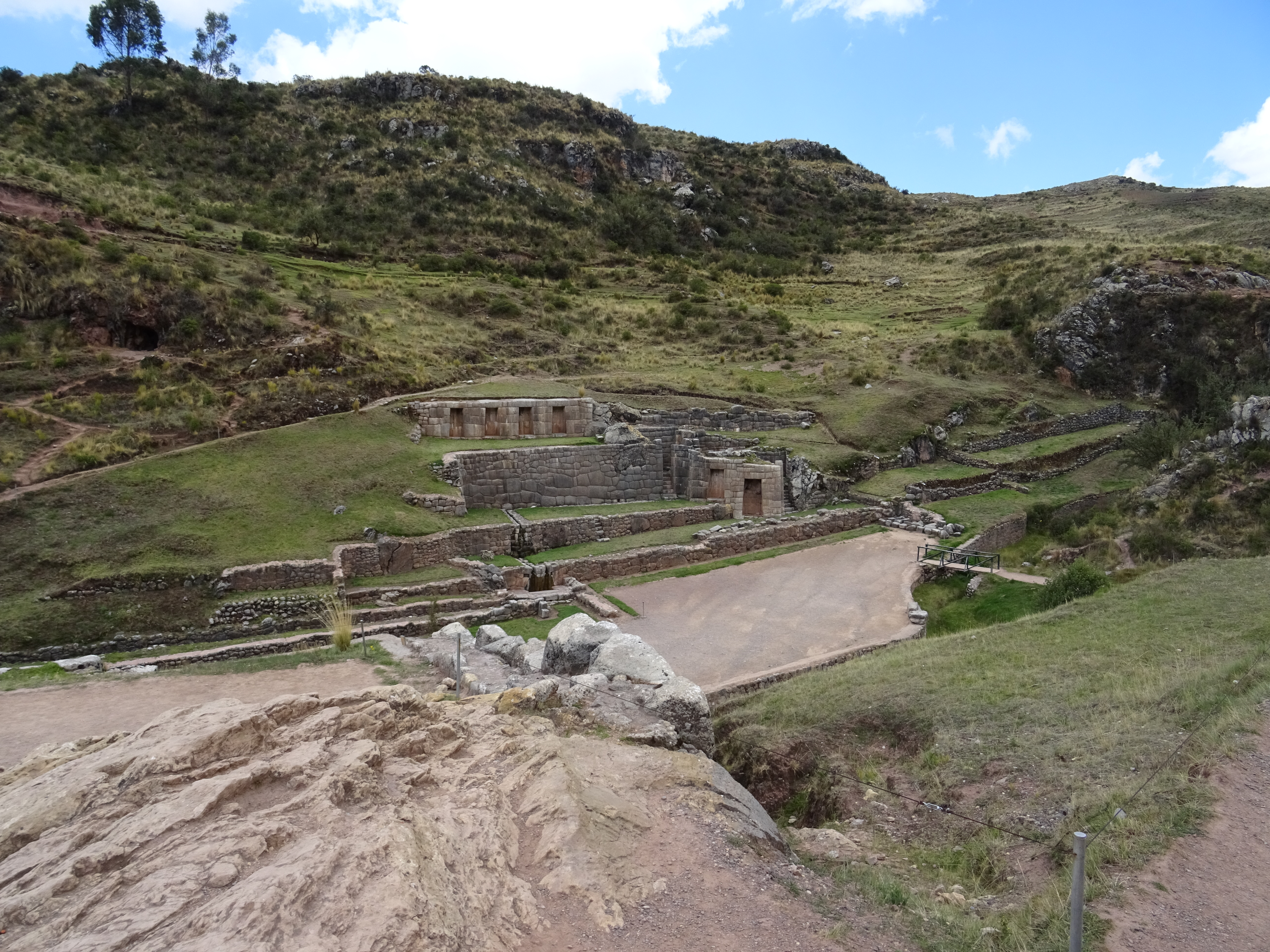 Overview from rock opposite to tambomachay temple